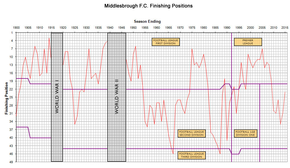 Graph of Middlesbrough FC's finishing positions since their entrance into the football league in the 1899-1900 season.